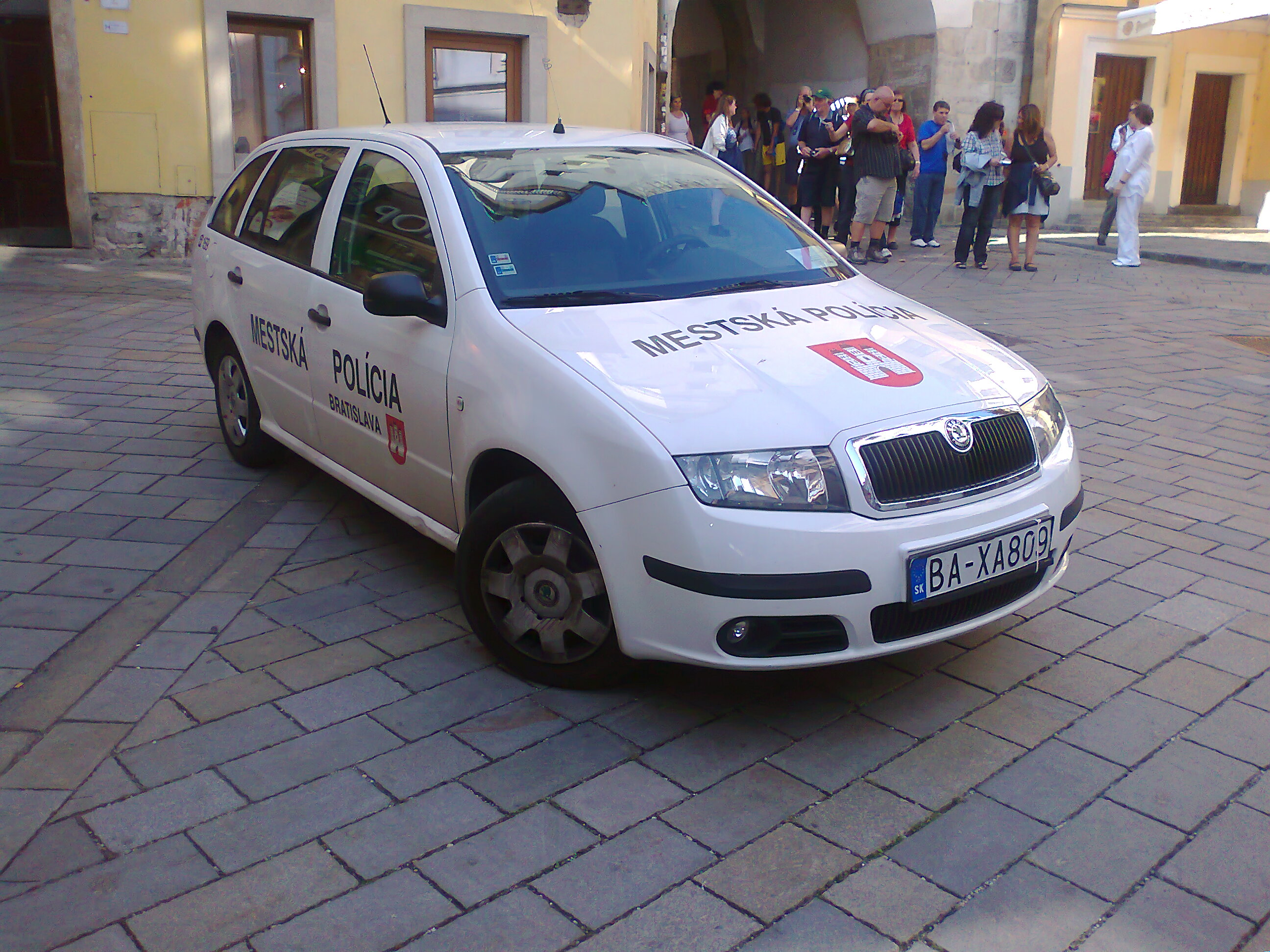 A municipal police car in Bratislava